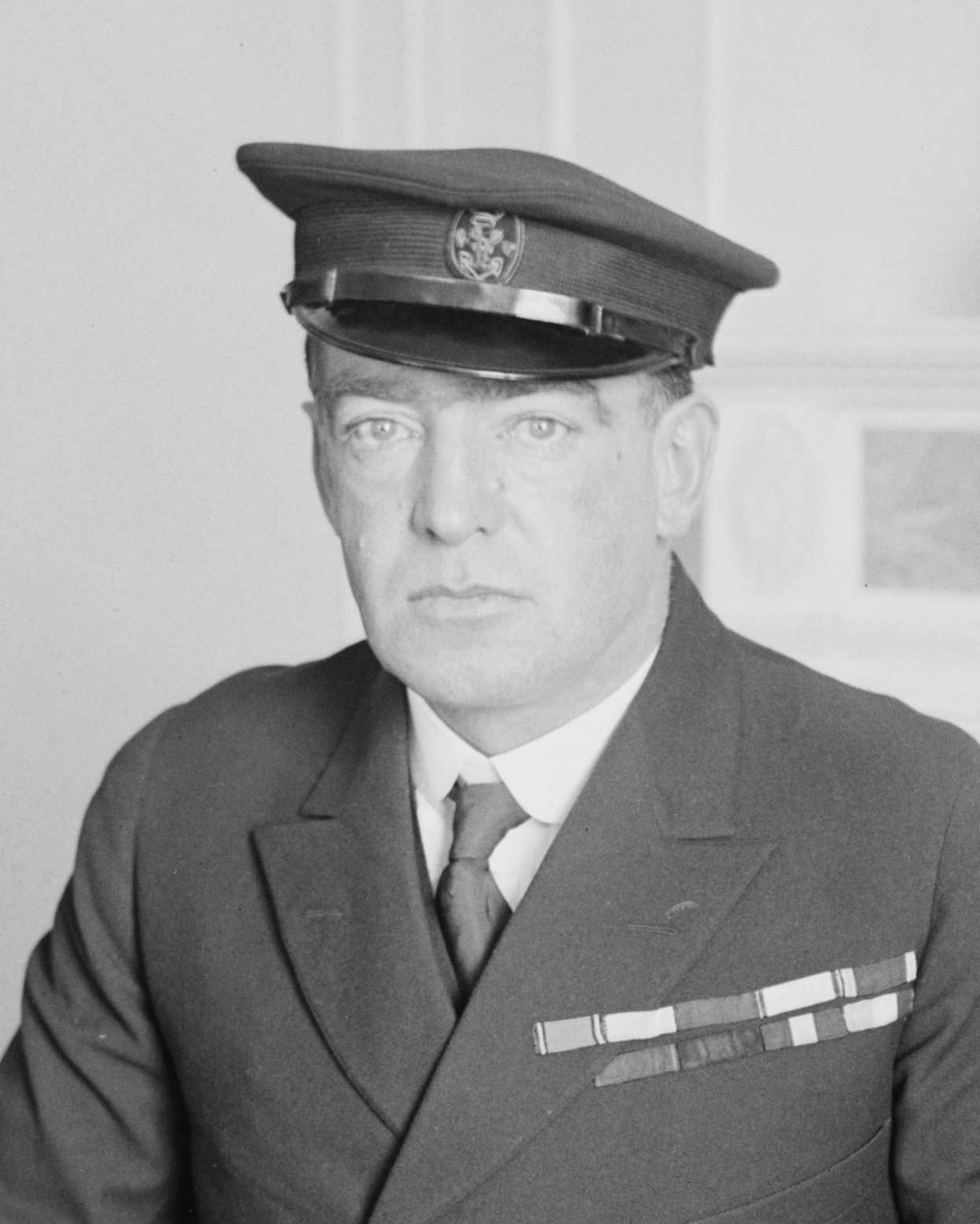 Sir Ernest Henry Shackleton in 1917